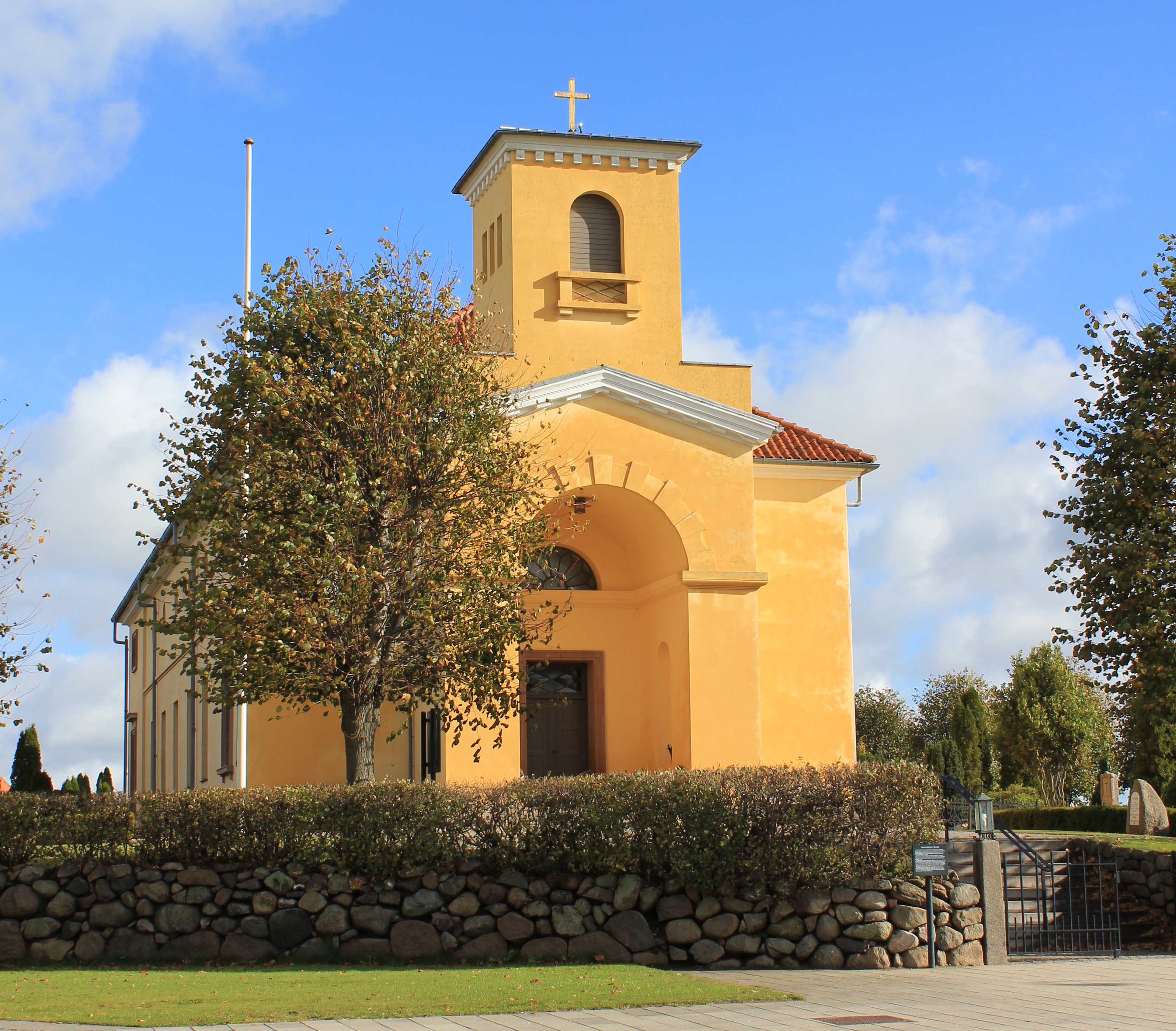 Vonsild church built in 1824. The first foundationstonr was set on 5 June by danish king Frederik d.VI., after whom it is named Frederik Church Vonsild. Opening on the 5th December. It replaced an old medieval stone church from 1200, originally dedicated to St. Anna. The church walls were originally plastered with a reddish plaster, but the church has otherwise emerged, as we see it today. In 1880 the tower was elevated and roof structure changed, thus the impression of the church's exterior was changed radically. It is now in connection with a major exterior renovation brought back to CF Hansen's original drawings.